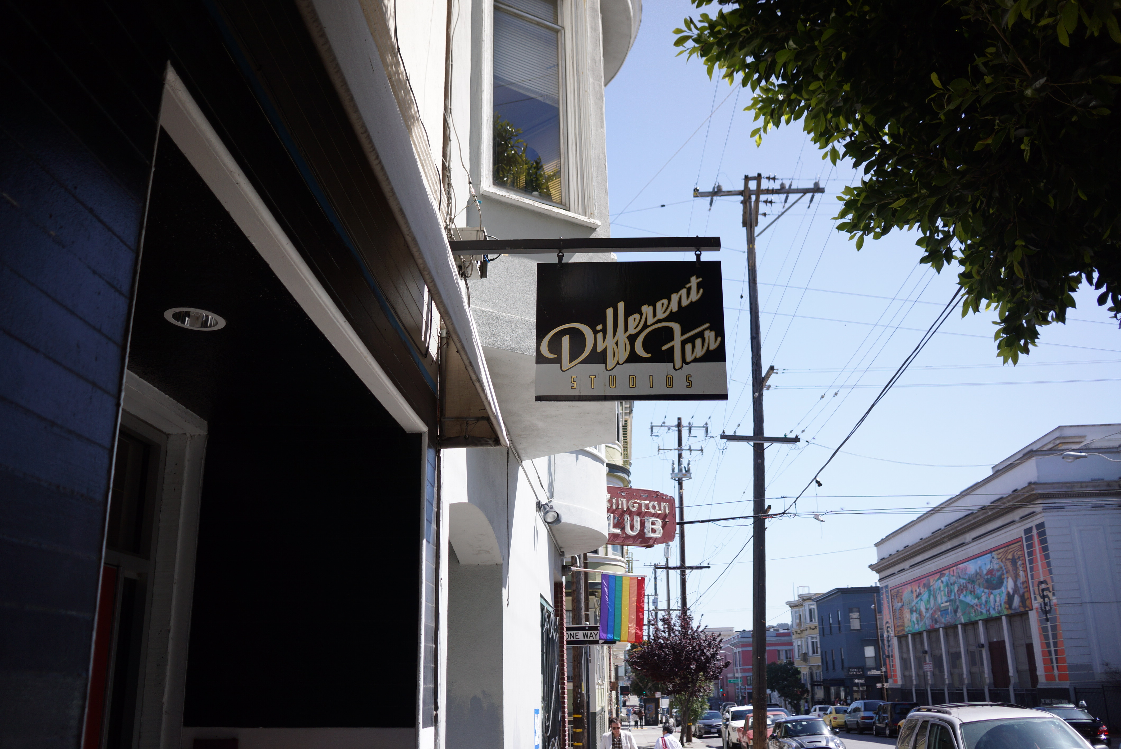 Different Fur Records Store front sign